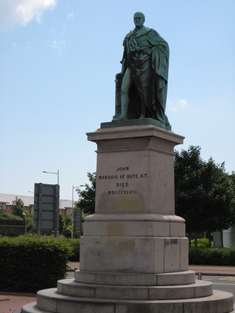 Statue of the 2nd Marquis of Bute, Callaghan Sq., Cardiff, Wales.